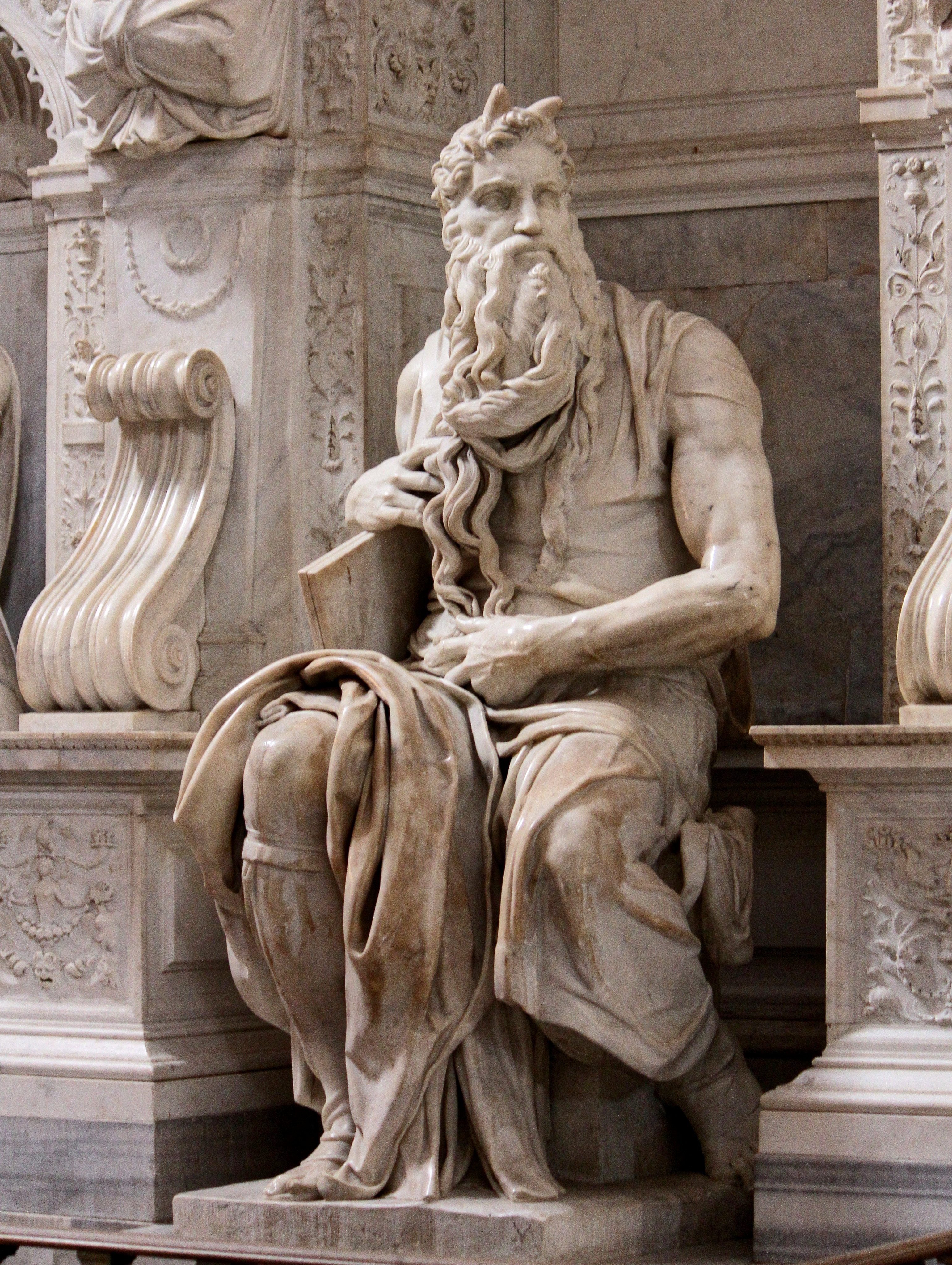 Michelangelo, Moses